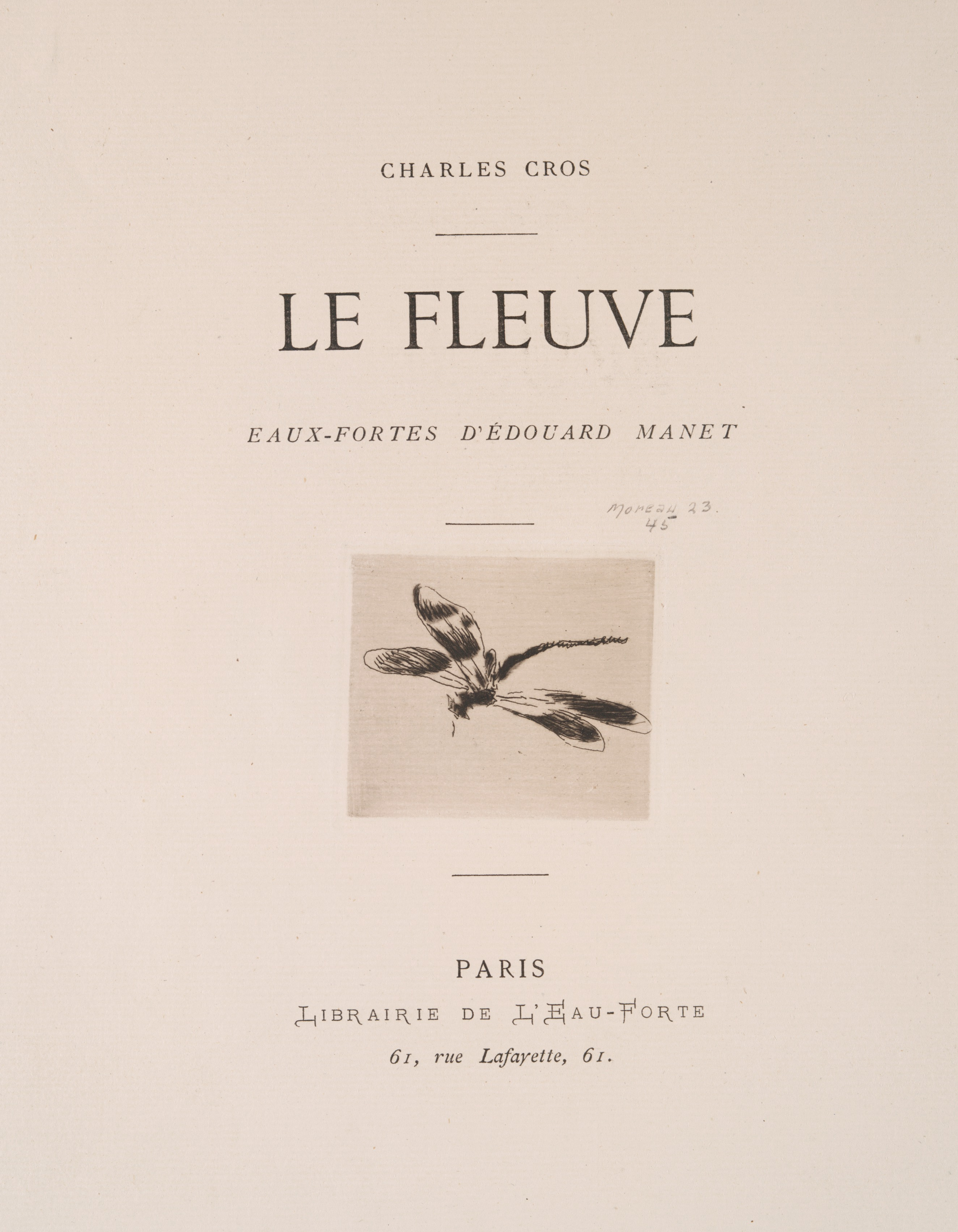 Admission is granted through application to the Office of Special Collections. Forms part of Samuel Putnam Avery Collection. Gift of Samuel Putnam Avery, 1900. Holdings checked in departmental copies of Etienne Moreau-Nelaton, Manet graveur et lithographe and Jean C. Harris, Edouard Manet: graphic works a definitive catalogue raisonne. Poem by Charles Cros. S.P. Avery Collection. Signed by Cros and Manet. Text by Charles Cros accompanied by etchings by Edouard Manet depicting a dragonfly, swallows, bridges, factories and scenery along a river. Tire a cent exemplaires, numerotes et signes par les auteurs. This copy is No. 55. Citation/Reference: M-N 23-30; G. 63; H. 79.